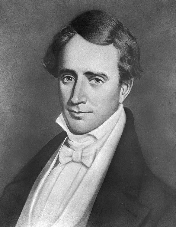 Portrait of former Mayor of Pittsburgh William W. Irwin